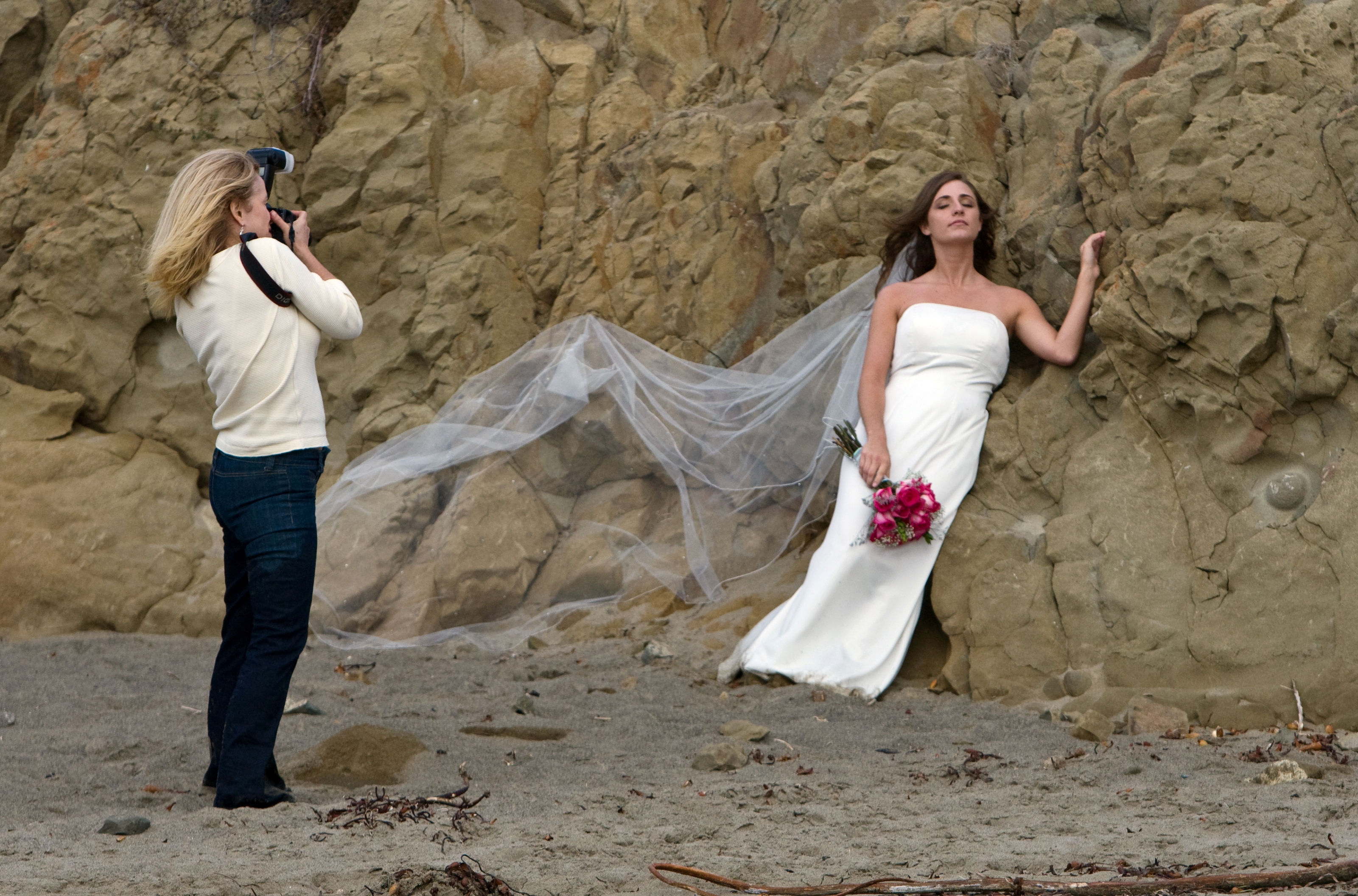 1 of 4 Female photographer from Phoenix, Arizona, rehearses taking a critical wedding photo using her assistant here as a model, in later light on Morro Strand State Beach, Morro Bay, CA. This photographer had an amazing array of lighting tools including Pocket Wizards and off-camera strobes. 01 Nov. 2008. Michael "Mike" L. Baird, Canon 1D Mark III, 70-200mm f/2.8 IS handheld. The veil was placed in position by the photographer who obviously has a keen eye and knows what she is doing.